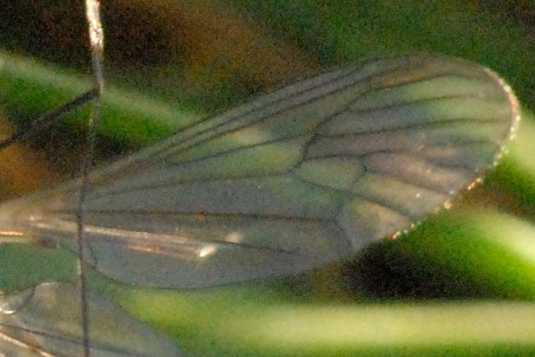 Picture taken in Commanster, Belgian High Ardennes . Species: Trichocera hiemalis, wing detail